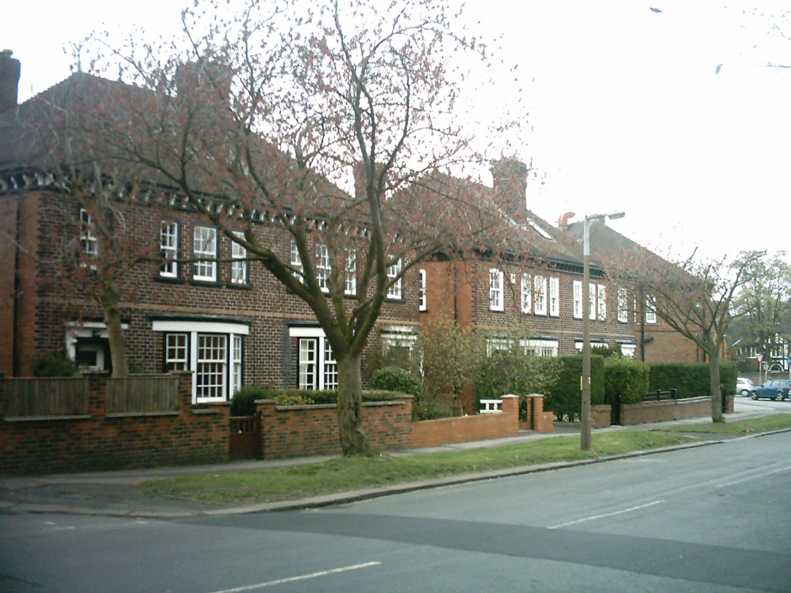 Private Housing on Spen Road in West Park, Leeds, West Yorkshire, UK. April 2009.